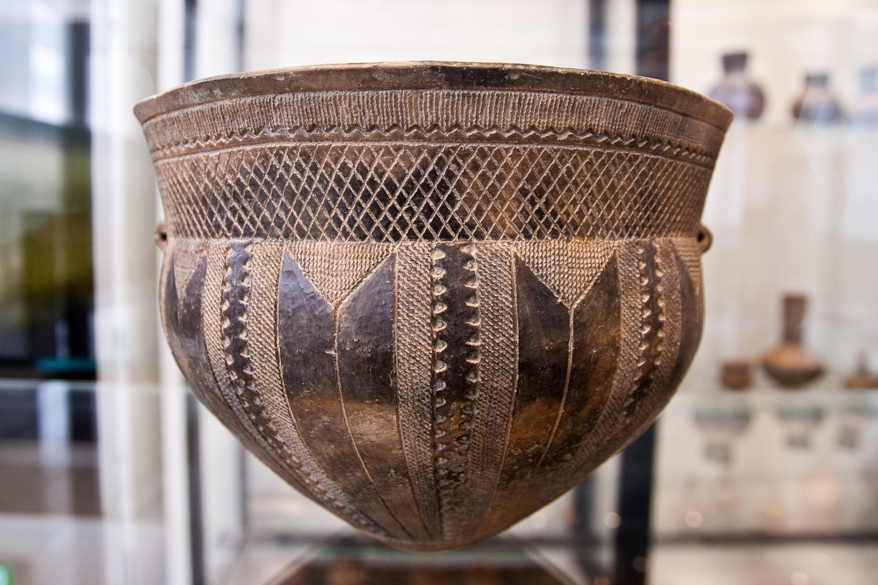 Skarpsallingkarret, the clay pot from Skarpsalling, is from the stone age around ca. 3250 BC. It was found in 1891 on Oudrup Hede nær Skarp Salling i Himmerland, Denmark.